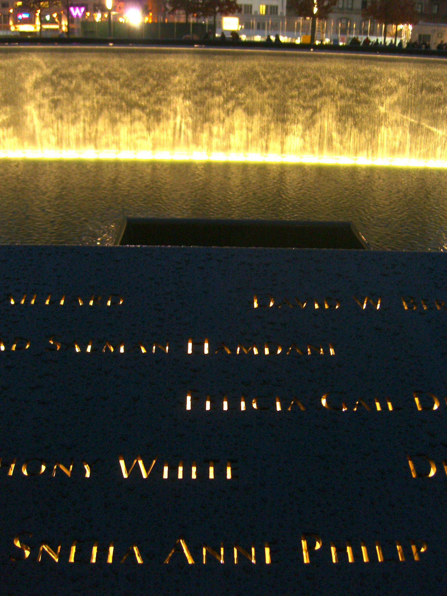 The name of Sneha Anne Philip is among those inscribed on bronze panel S-66 of the South Pool of the National September 11 Memorial in Manhattan, as seen on December 6, 2011. This photo was created by Luigi Novi. If you have any questions, you can contact me by sending me an email or User talk:Nightscream